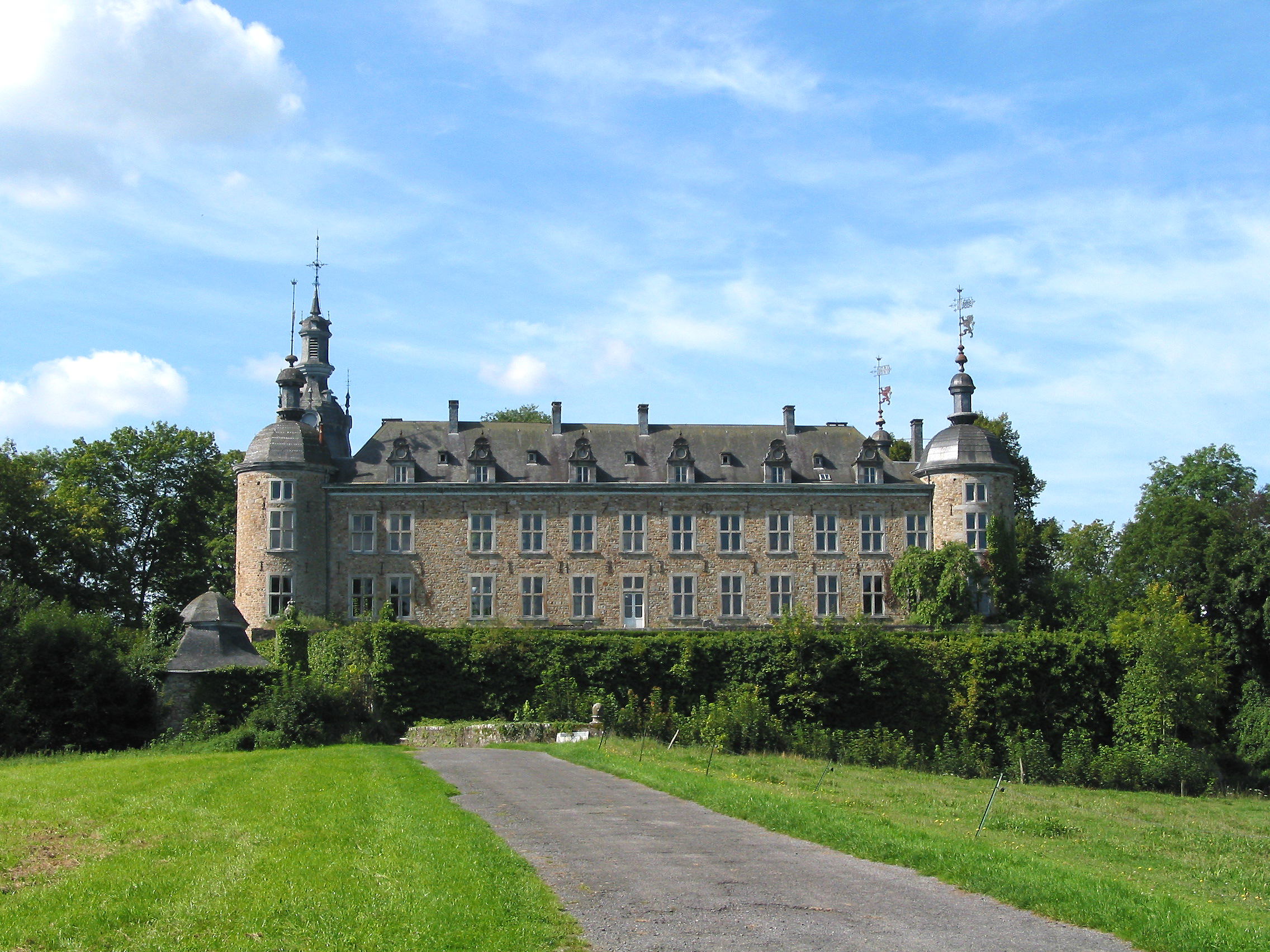 Mirwart (Belgium): the castle (11th–18th centuries).